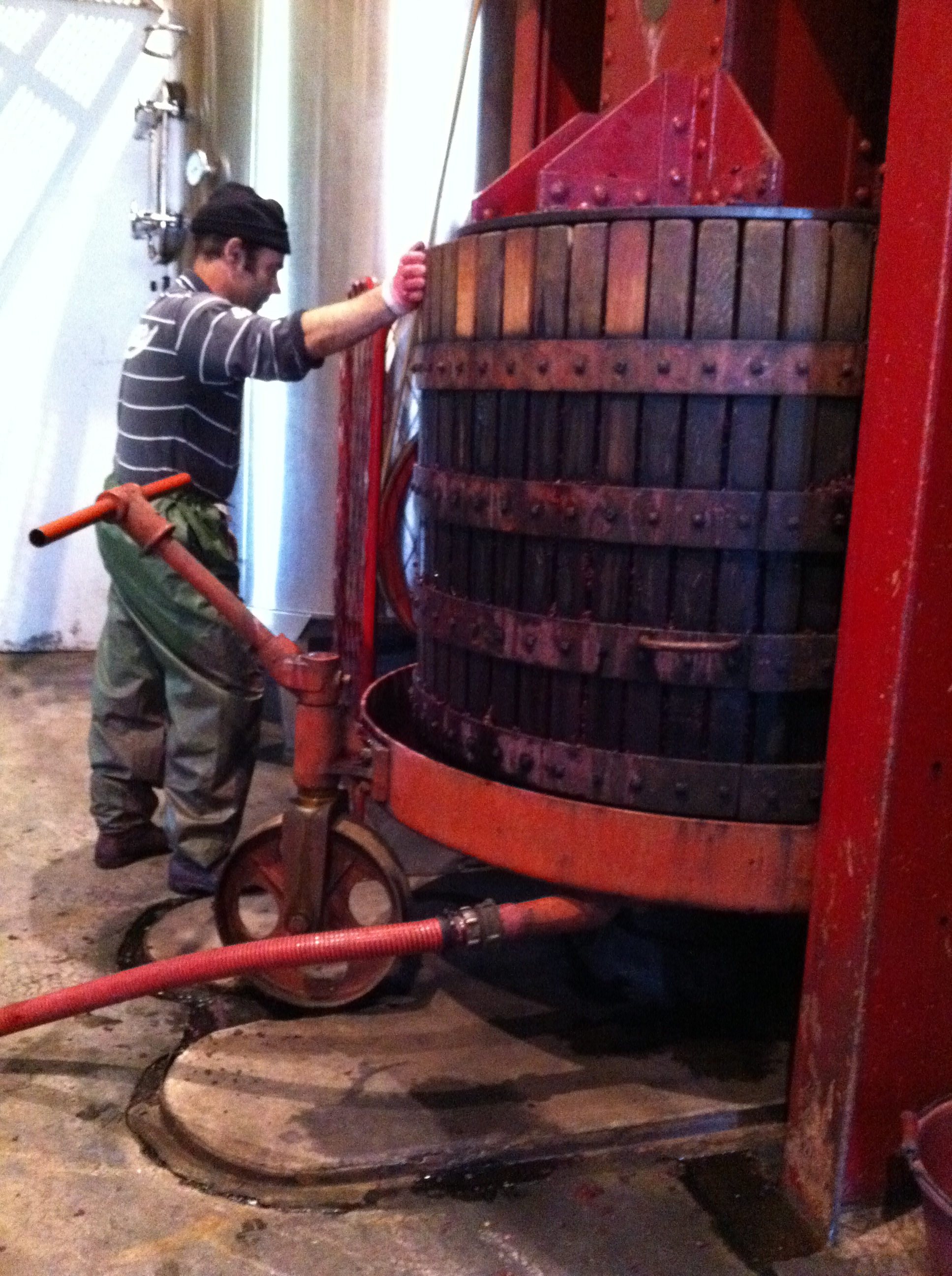 A basket wine press being used on red wine grape varieties in Bordeaux.